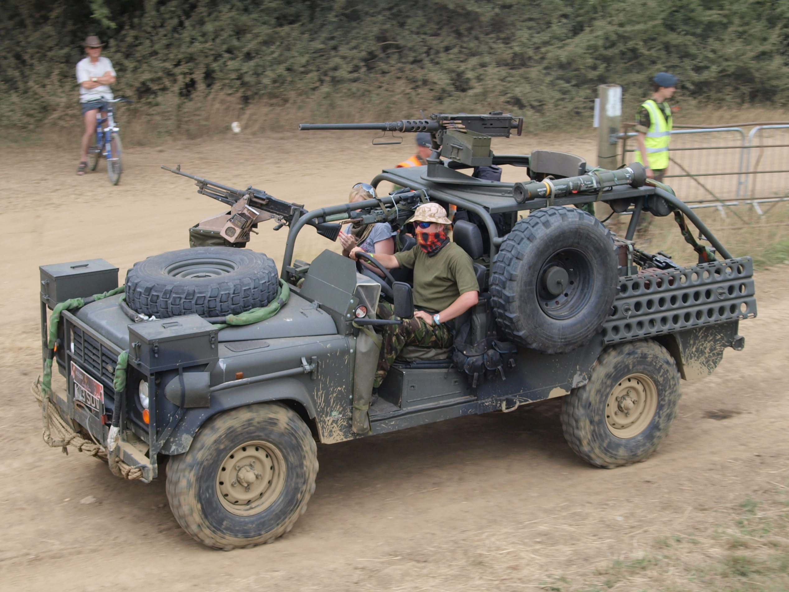 Land Rover, Ranger Special Operations Vehicle (RSOV) (replica).